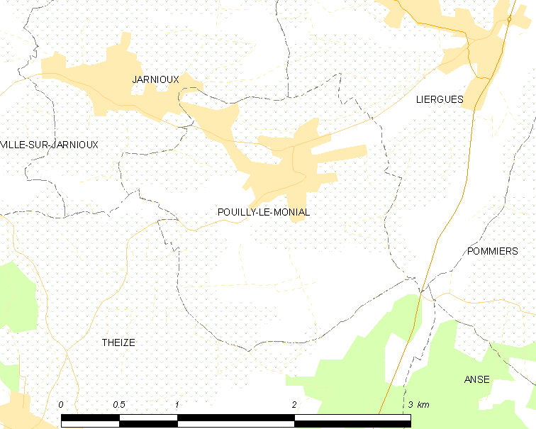 Map of French municipality